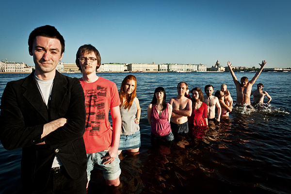 activists of Voina art-group